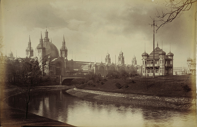 Exhibition pavilions at the Glasgow Exhibition, 1888 by James Valentine Accession no. PGP R 632 Medium Albumen print Size 28.8 x 19.1 cm Credit Gift of Mrs. Riddell in memory of Peter Fletcher Riddell 1985 For more information please select here.